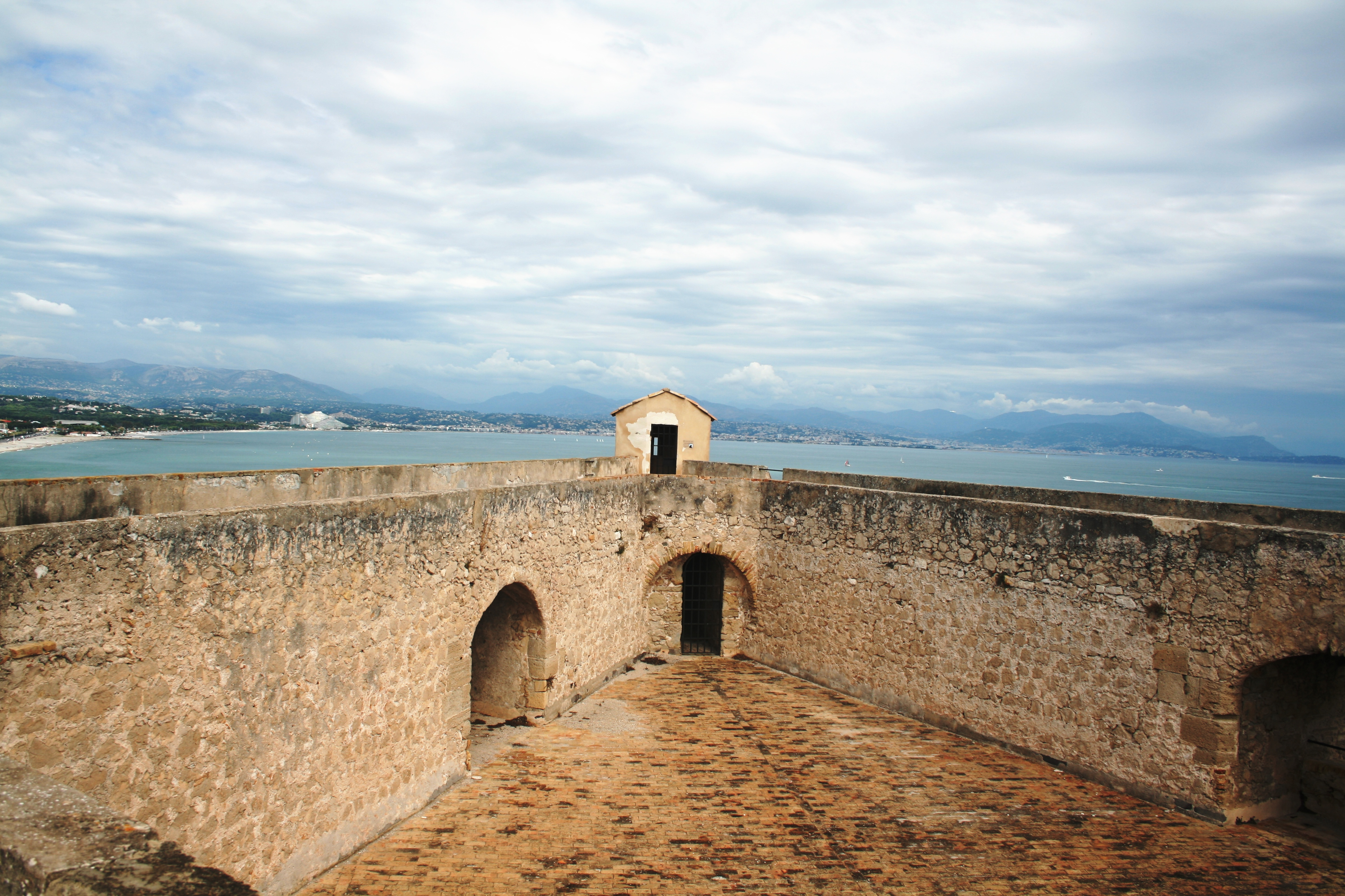 Nice bastion of Fort Carré, in Antibes